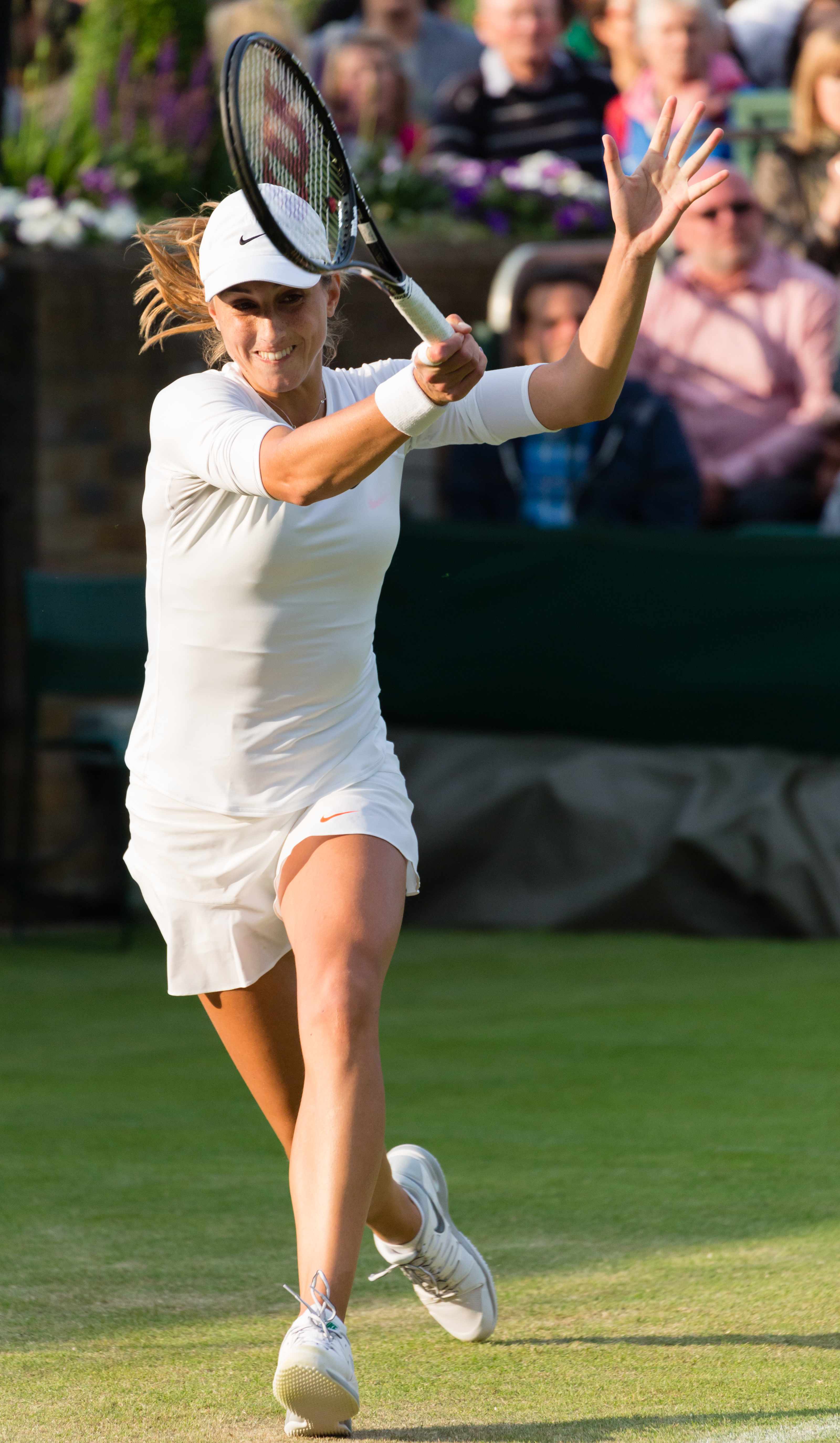 Petra Martic during her first round win against Anna Tatishvili at Wimbledon in 2013.